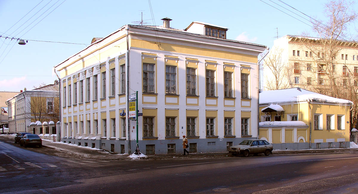 Vorontsovo Pole Street, Moscow. Corner of Podsosensky Lane